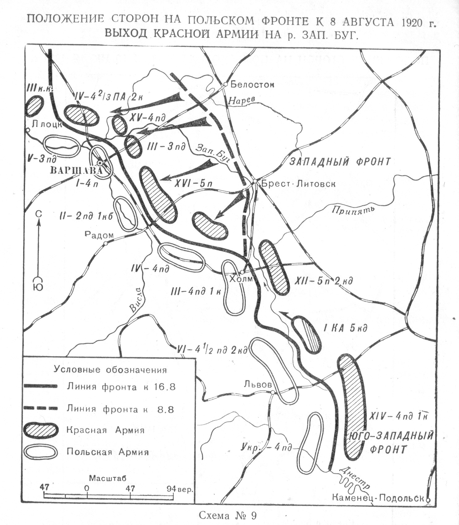 Polish-Soviet front 8.08.1920.